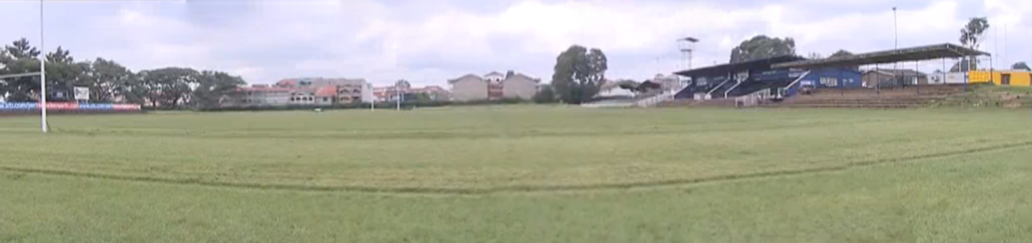 Panorama of the RFUEA Ground facing south.